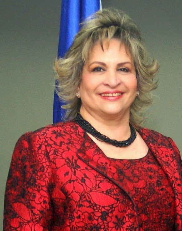 Alexandra Izquierdo in 2015